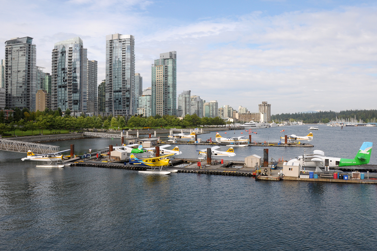 An overview of Vancouver Harbour Water Airport